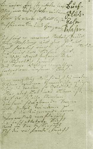 Goethe, diary, swiss voyage, june 15th 1775